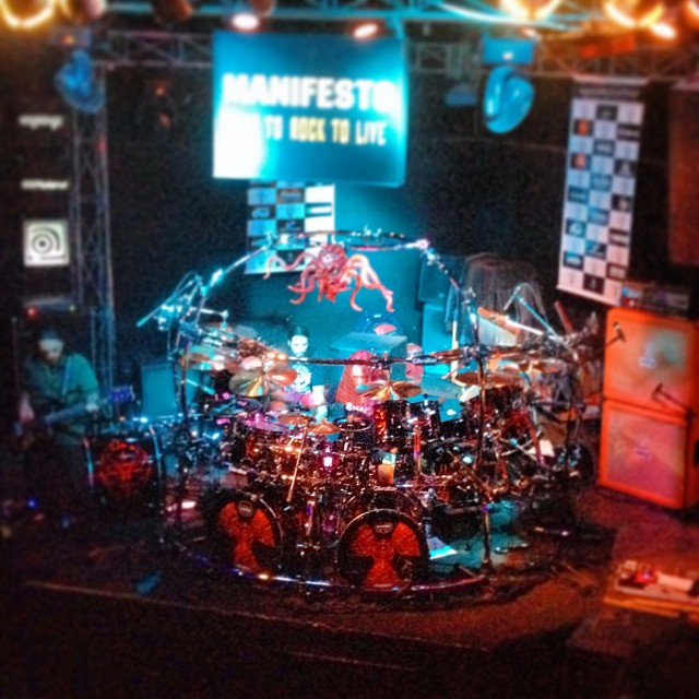 Aquiles Priester Workshop at Manifesto Bar in São Paulo city October 2013